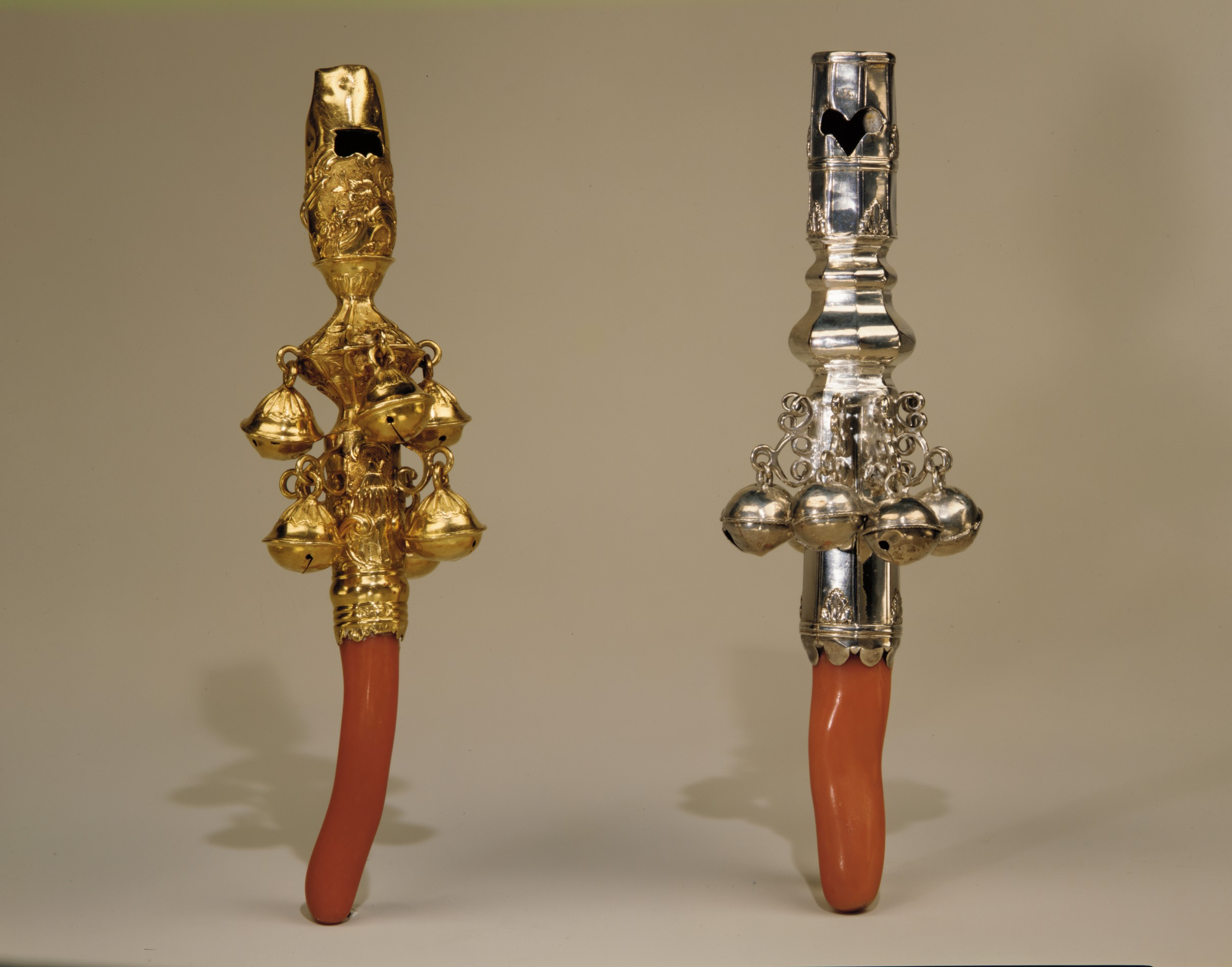 American; Rattle; Silver